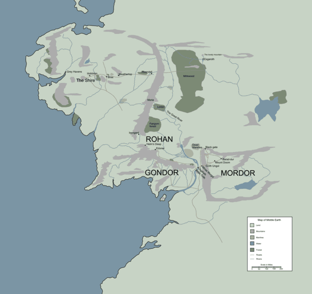 Map of Middle-earth